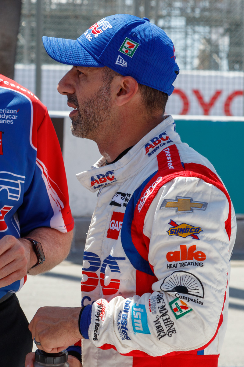 Tony Kanaan consults with crew